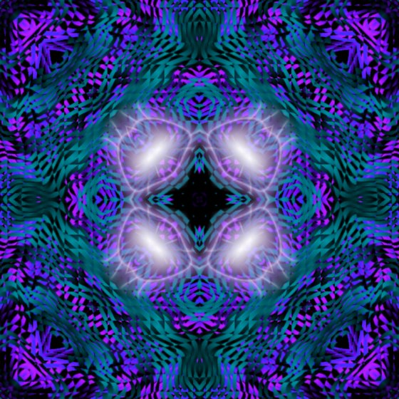 Image used for a the italian article on symmetry, by Toobaz (